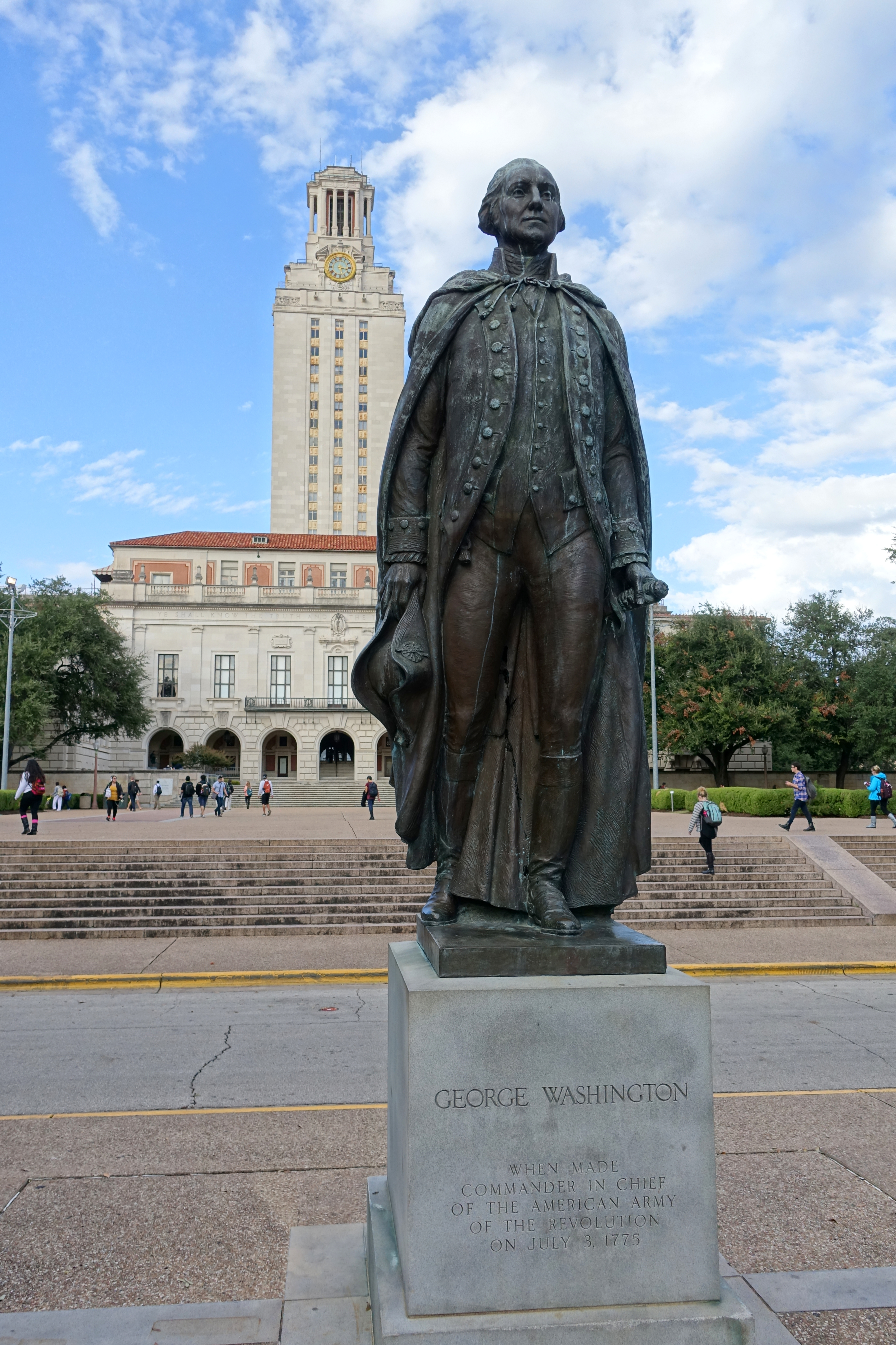 George Washington by Pompeo Coppini - University of Texas at Austin, Austin, Texas, USA. Created 1955. This artwork is in the public domain because it was published in the United States between 1923 and 1963, with its copyright not renewed. Smithsonian SIRIS Control Number: IAS 77006153.